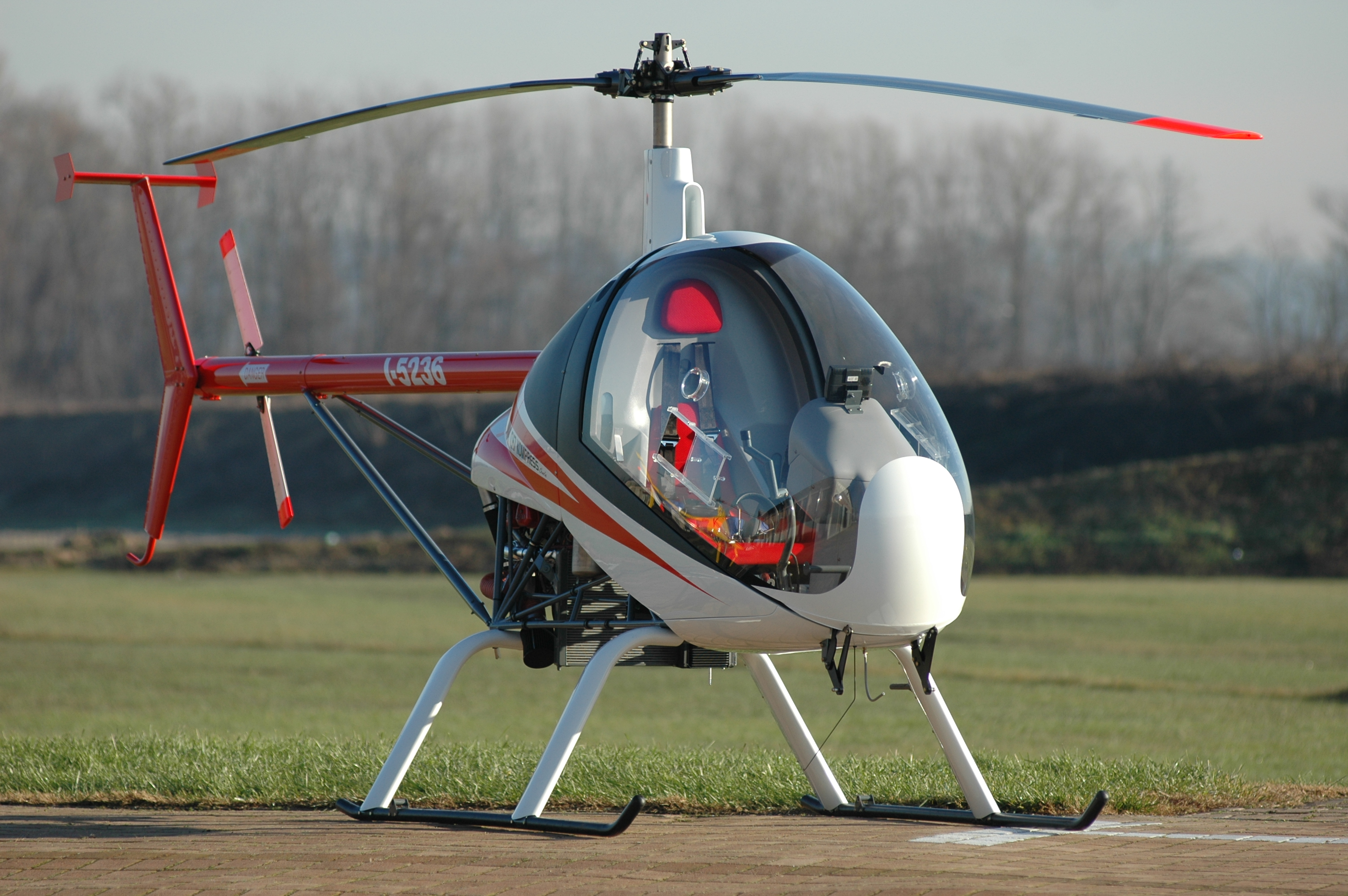 Heli-Sport CH7 Kompress C Helicopter I-5236 awaiting delivery in Asti, Italy